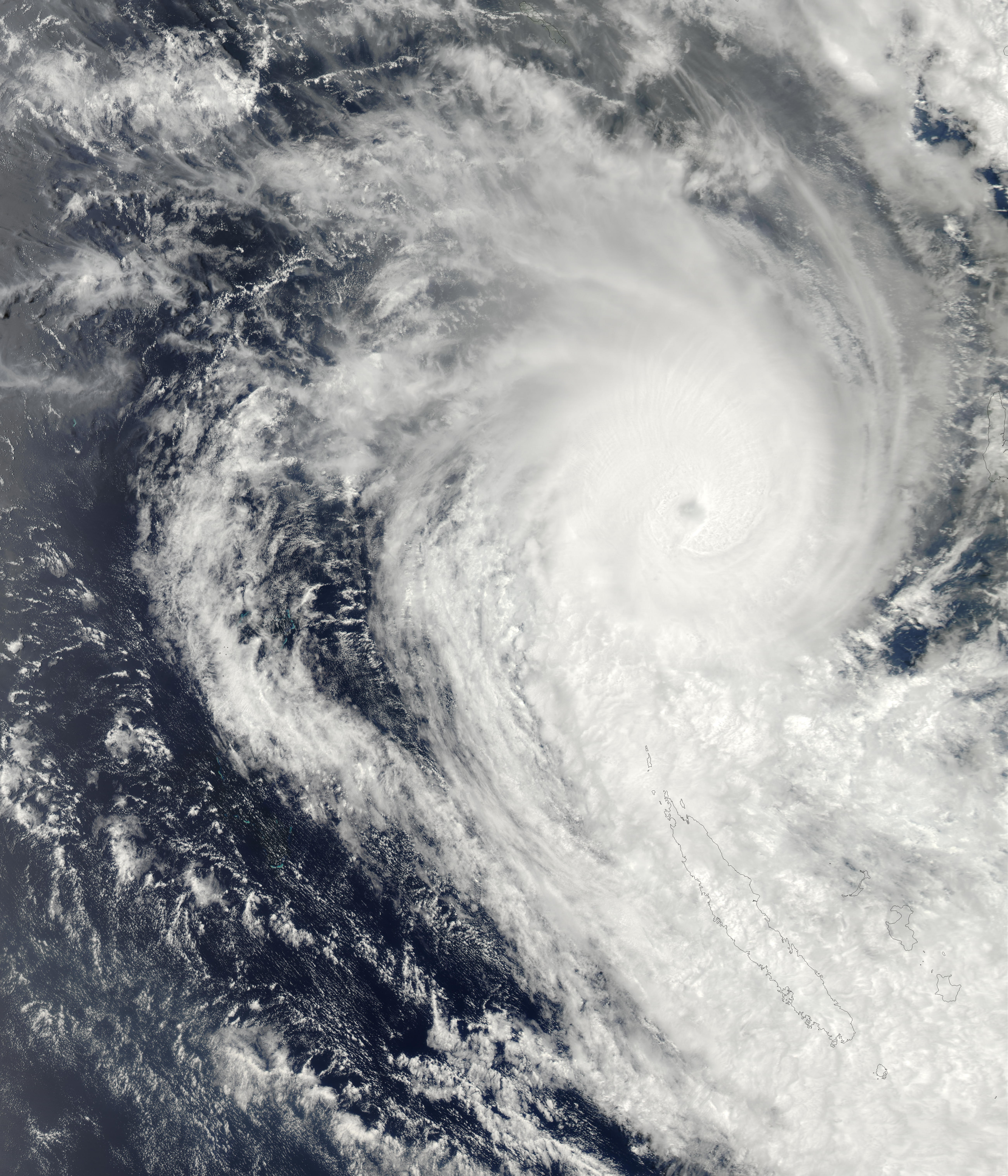 This true-color image from the MODIS instrument onboard NASA’s Aqua spacecraft shows Tropical Cyclone Beni located approximately 215 miles south-southeast Honiara, Solomon Islands, on Jan. 26. Beni’s maximum sustained winds were near 60 mph and the storm intensified over the subsequent 36-48 hours to 145 mph. Beni moved south toward New Caledonia over the next few days, under the influence of a low to mid-level ridge to the northeast.